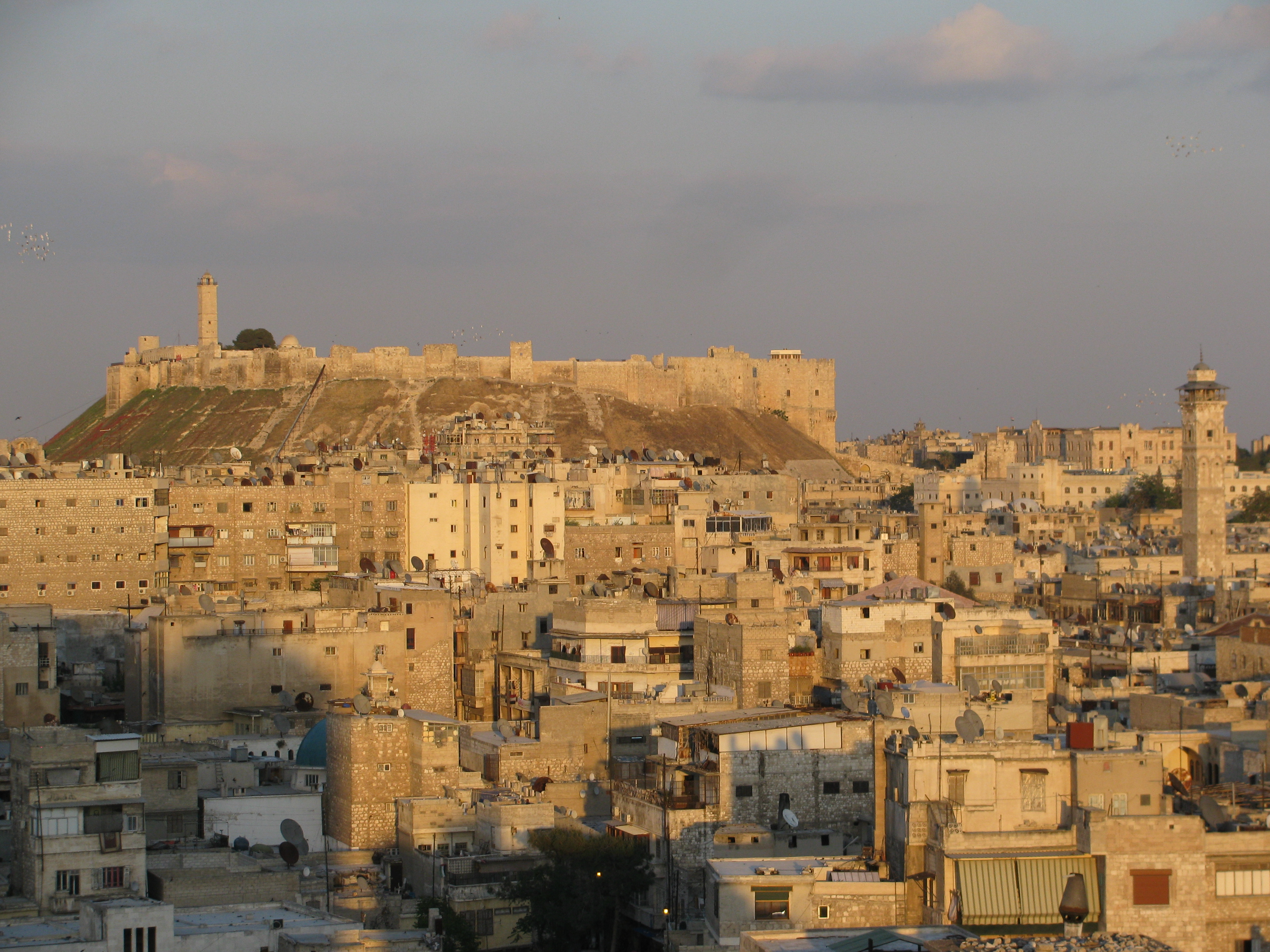 The citadel overlooking the city, Aleppo.